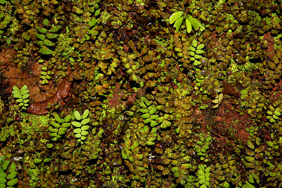 Adiantum lunulatum- 'Rajhans' 'राजहंस' / Ratkombada' 'रातकोंबडा' in Marathi- in Goa, India.